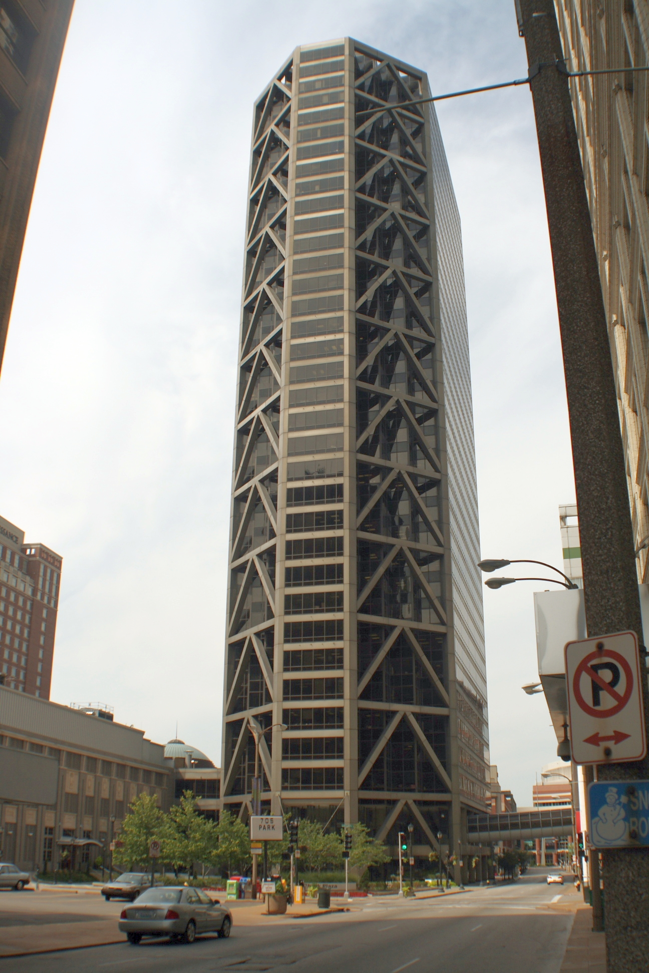 One US Bank Plaza is the third-tallest building in St. Louis when ranked by pinnacle height.